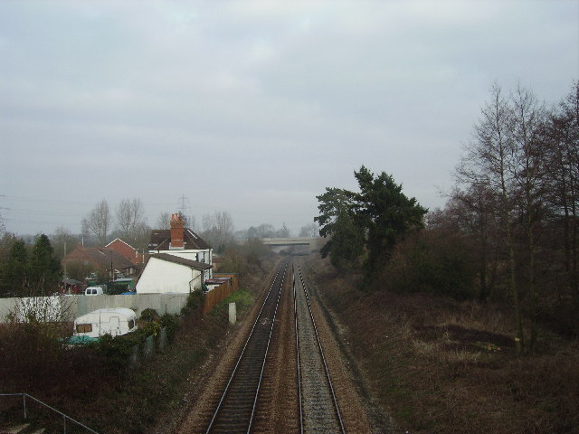 Southampton - Romsey railway line, nr Nursling. Looking North along the Romsey to Southampton railway line, the bridge under the M27 can be seen in the centre of the shot. There was once a station here and the furthest part of the white building was the original station house.